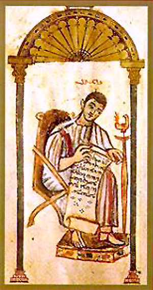 Icon of St. John the Evangelist